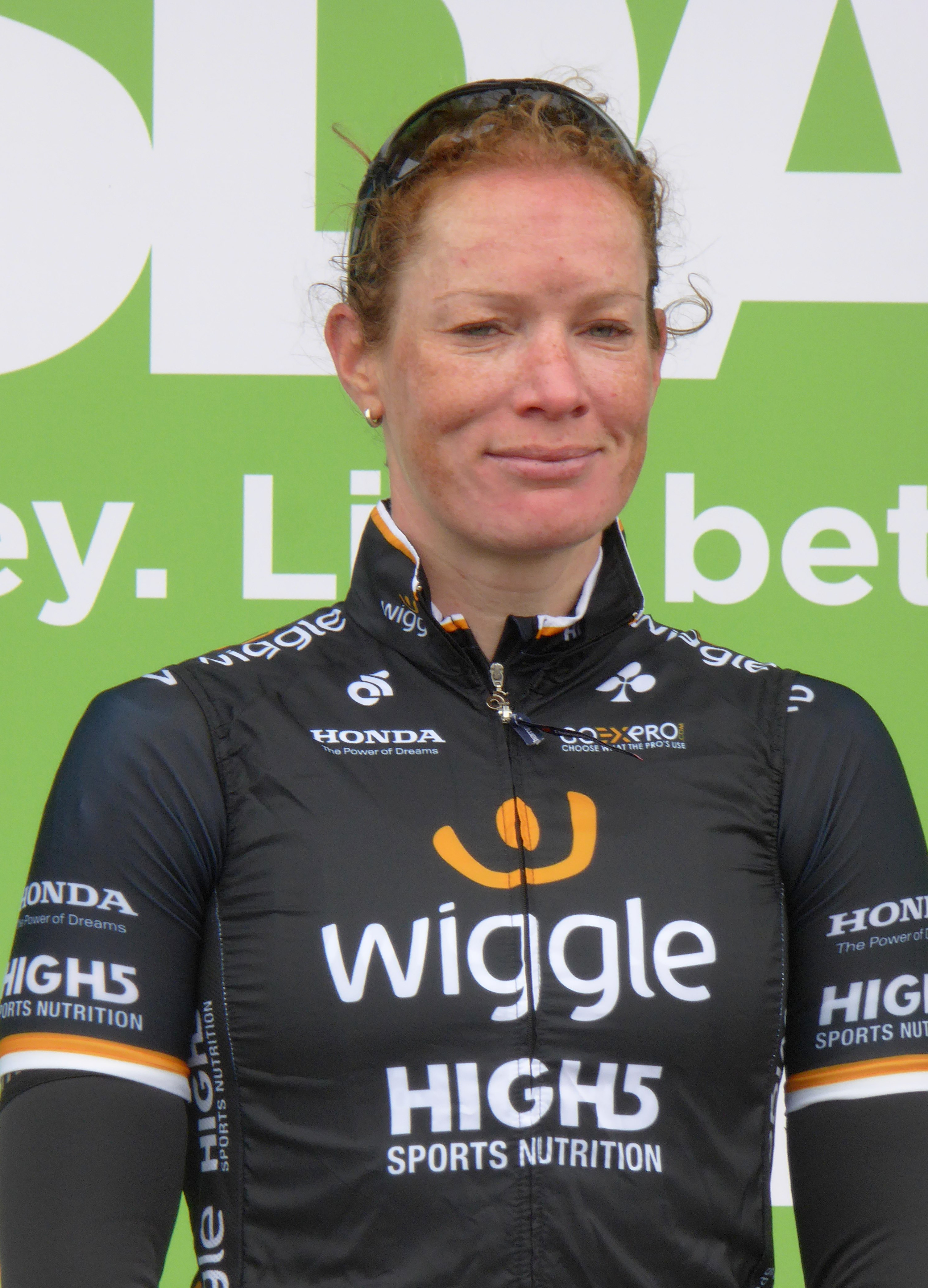 Kirsten Wild (Wiggle-High5), after Stage 2 of the 2018 Women's Tour de Yorkshire in Ilkley.